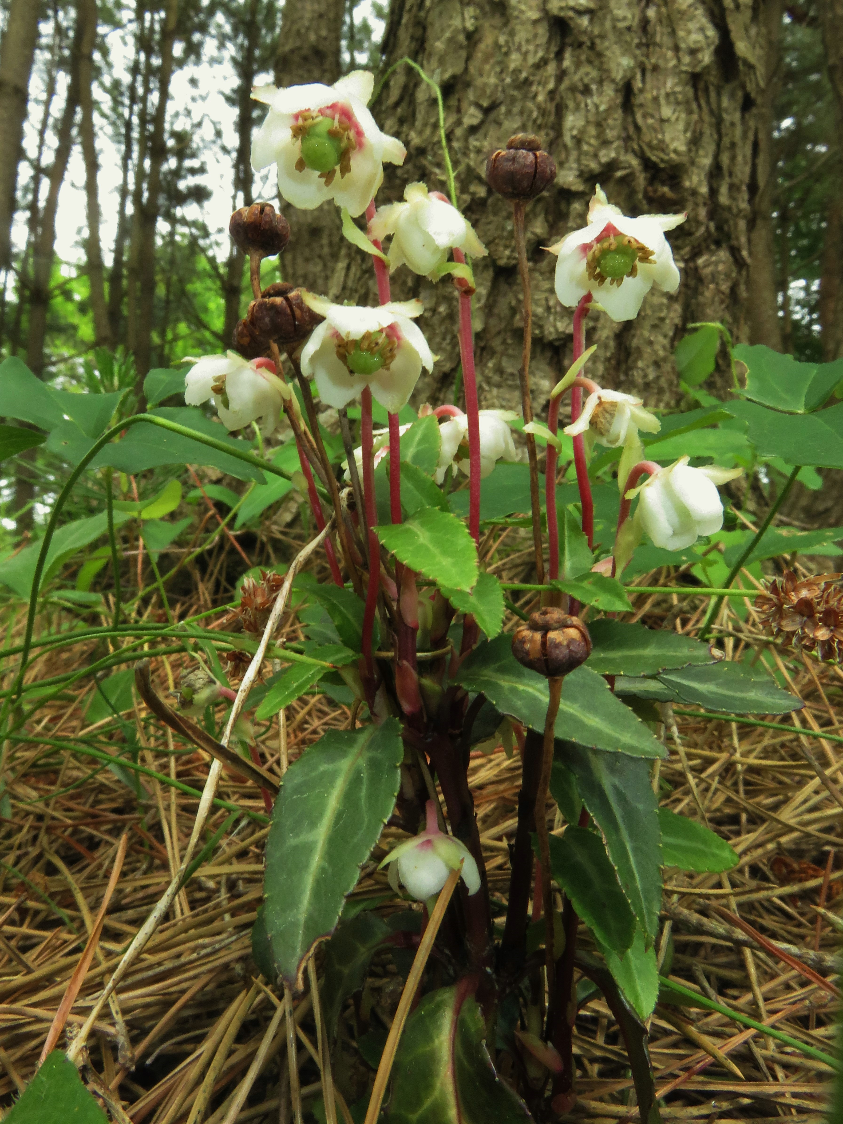 Chimaphila japonica, Hitachi Seaside Park, Ibaraki pref., Japan